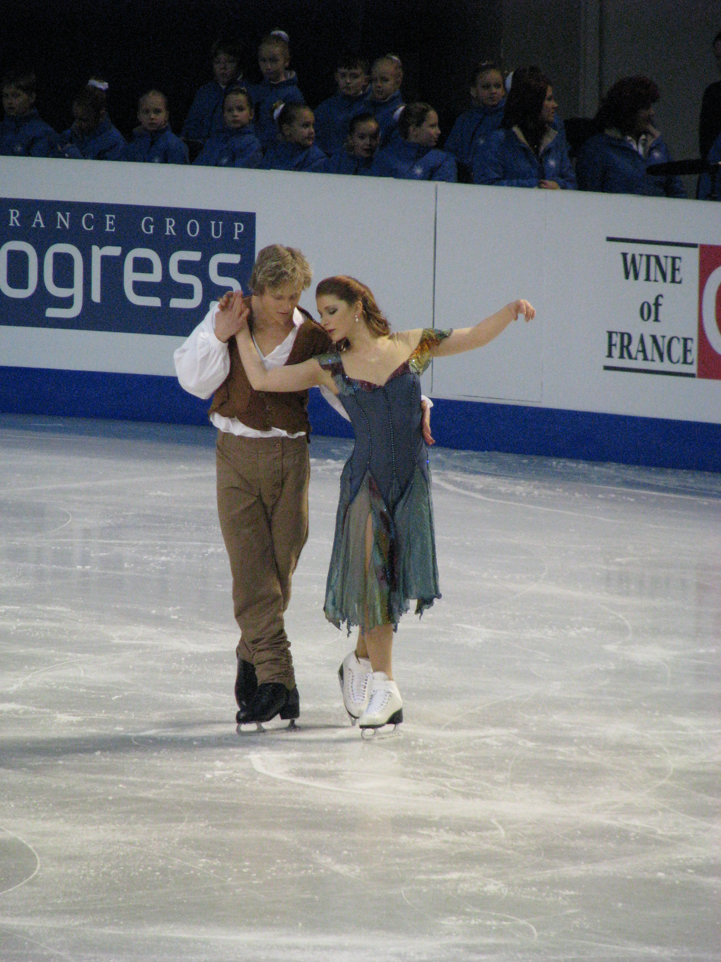 Kristjan Rand & Caitlin Mallory 2010 European Figure Skating Championships